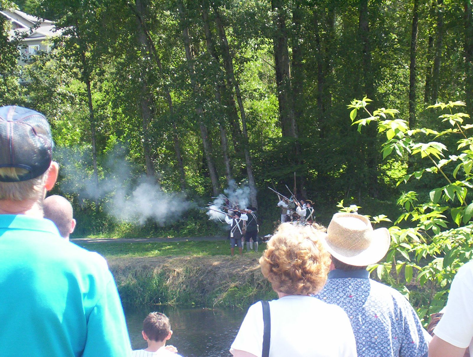 Reenactors of the battle at Concord, Massachusetts in Bothell, Washington on Independence Day 2005